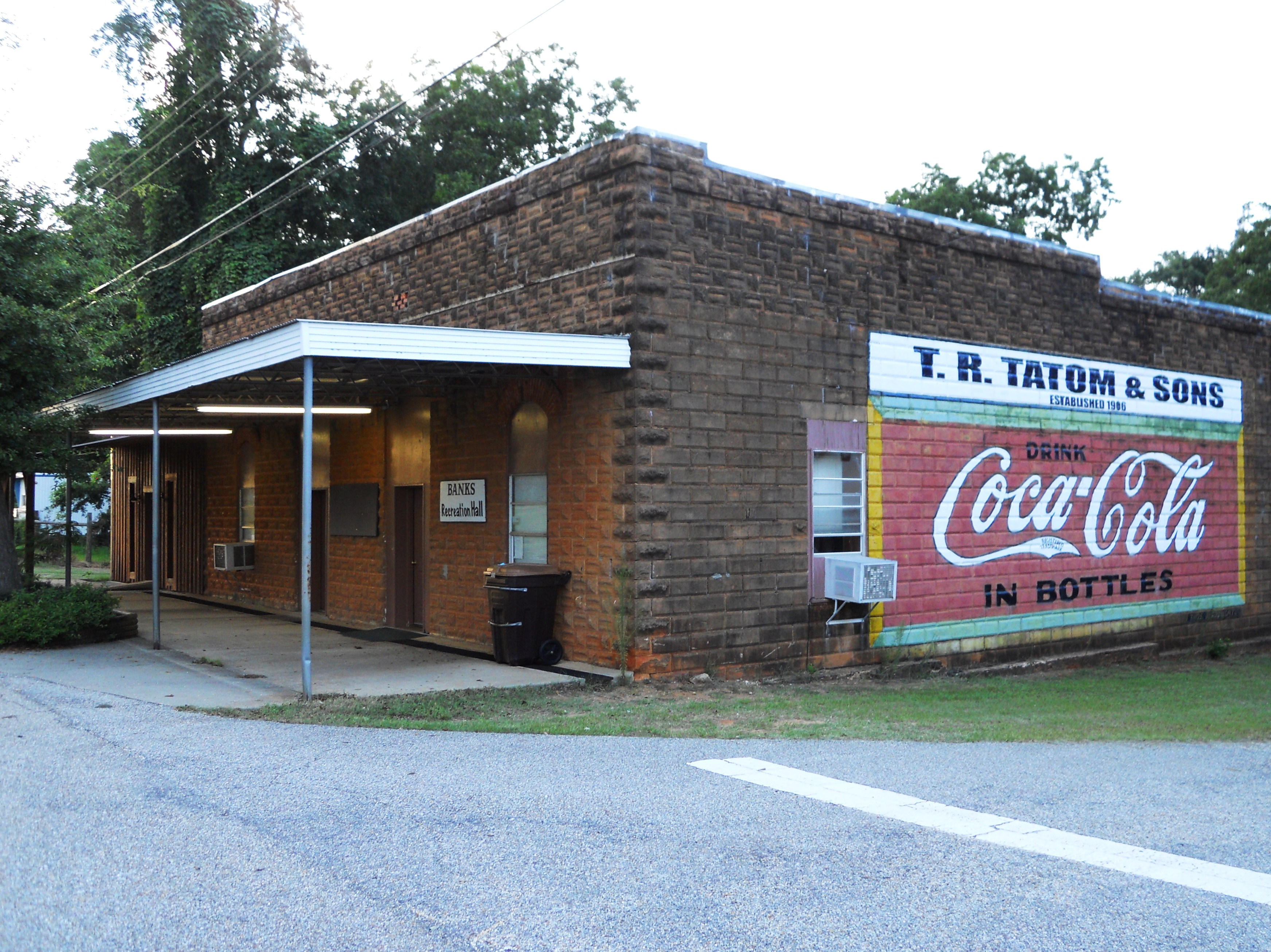 This is a photograph of the Banks Recreation Hall in Banks, Alabama.